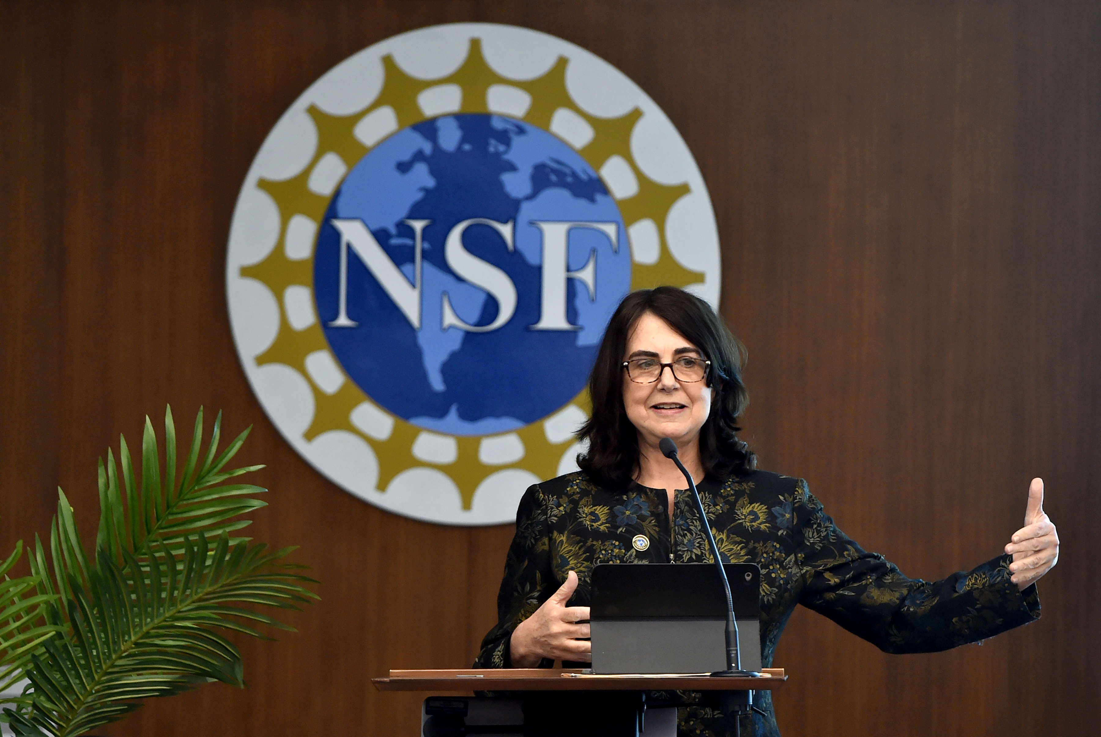 Diane Souvaine speaking at the US National Science Foundation 7th Anniversary Symposium, February 6, 2020